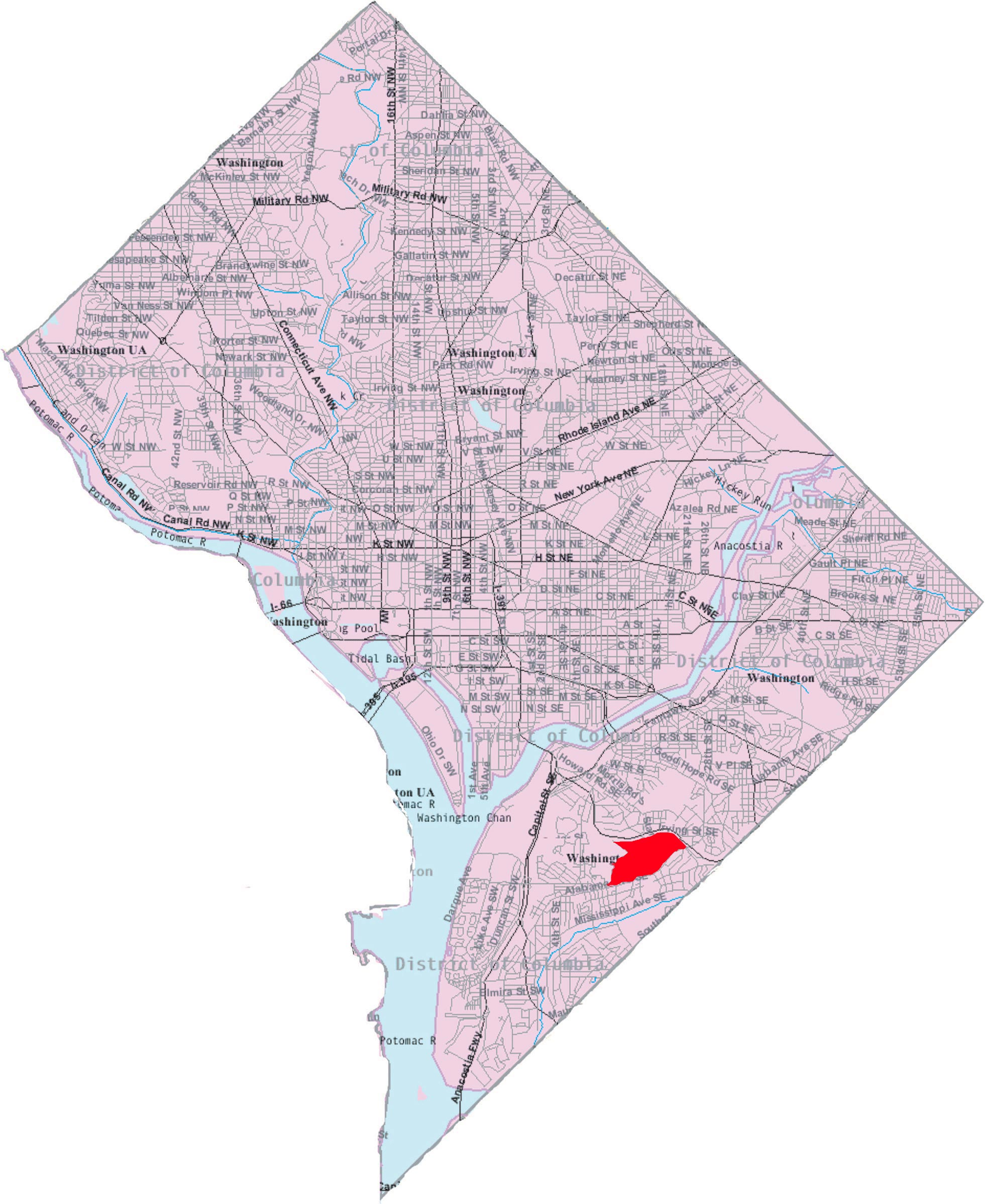 This image is a modified version of a self-generated reference map from the U.S. Census Bureau's American Factfinder at by Wikipedia user Msclguru.